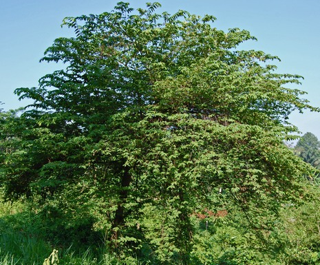 Muntingia calabura tree; from Darmaga, Bogor, West Java, Indonesia